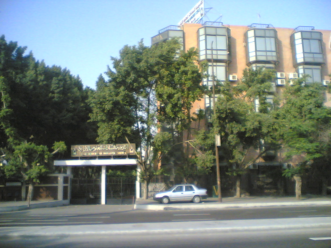 Campus of the Faculty of Management of Sadat Academy for Management Sciences, in Maadi, Cairo